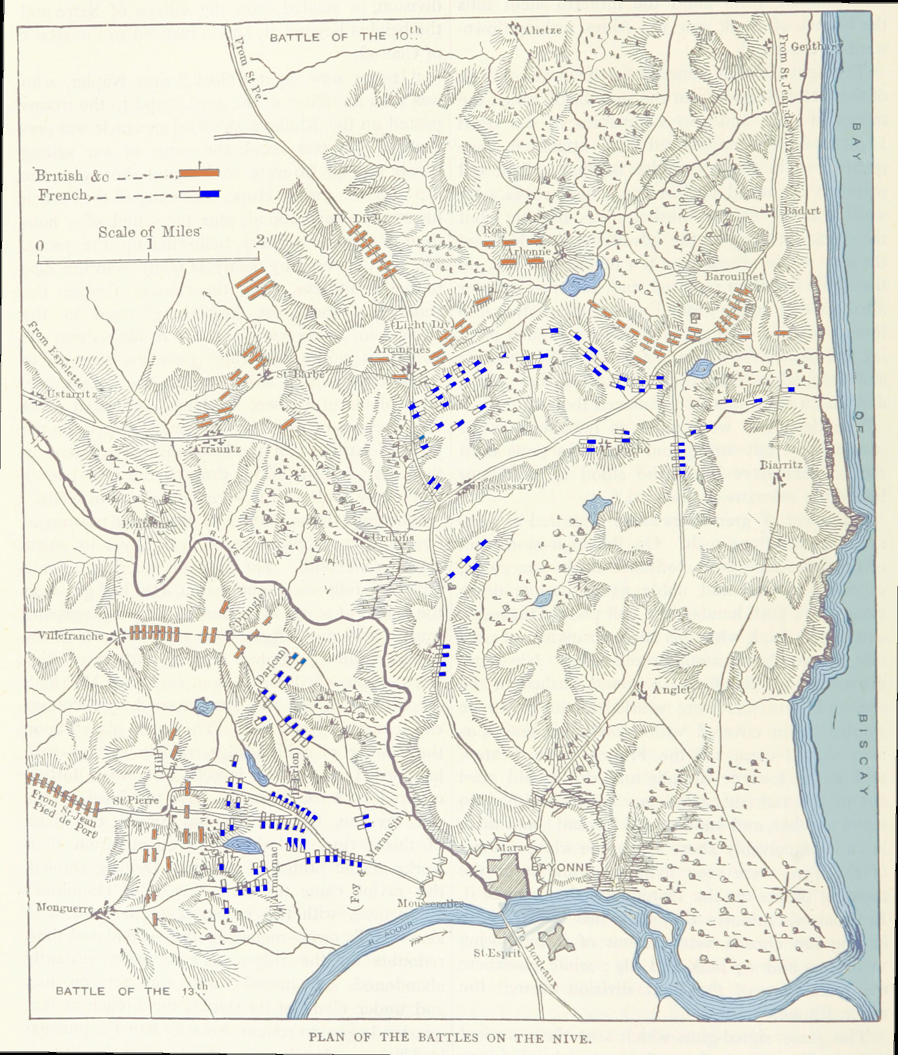 A map of the 1813 Battle of the Nive.